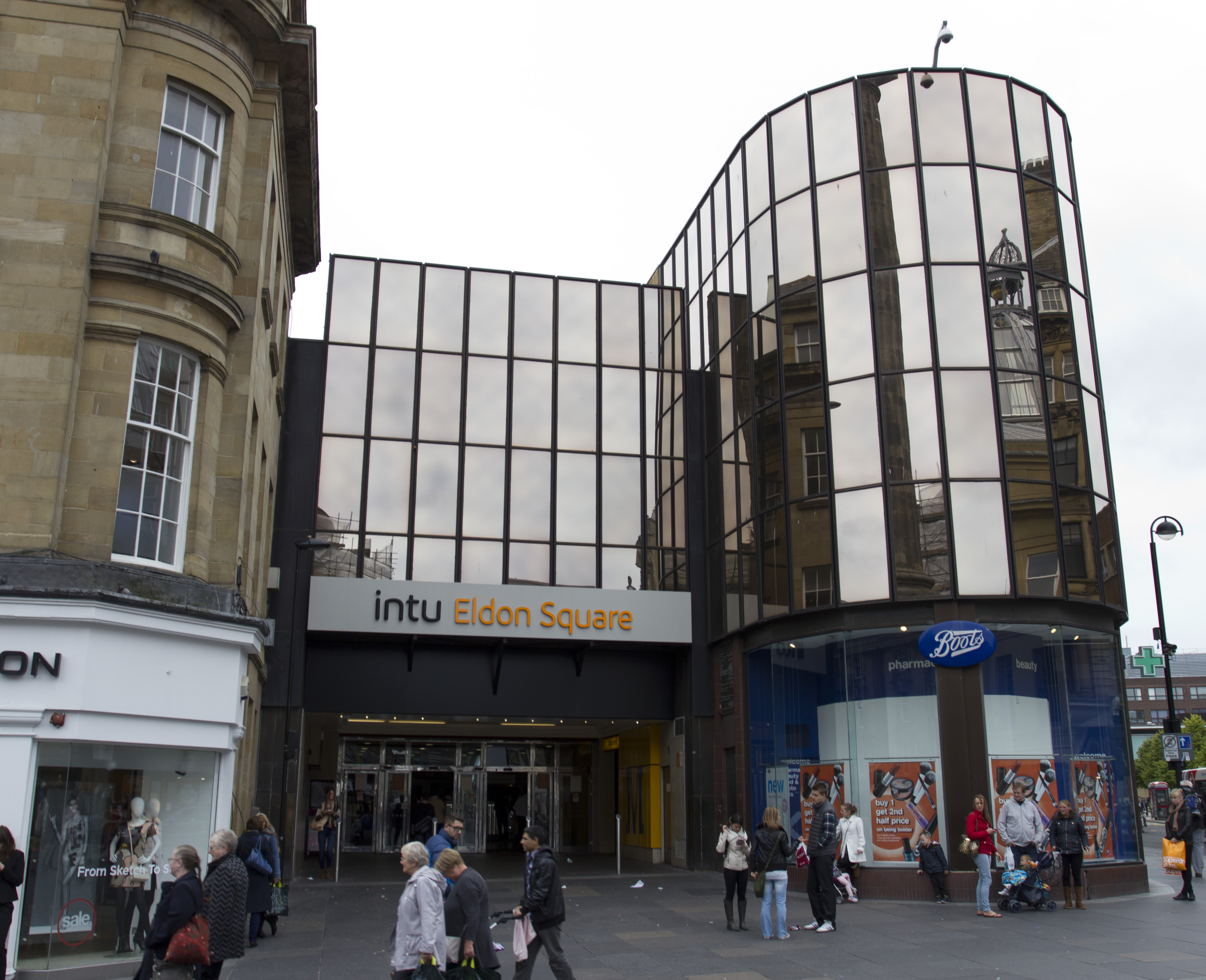 intu Eldon Square's Monument, Newcastle upon Tyne entrance to the shopping mall pictured in 2013 following the intu rebranding